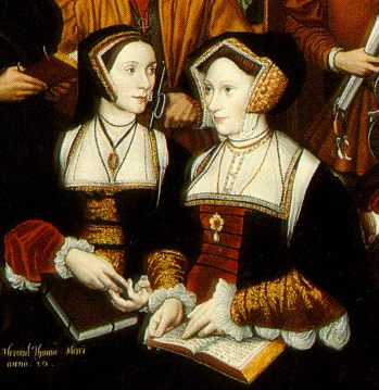 Detail of The Family of Thomas More, copy by Lockey of a lost original by Holbein.